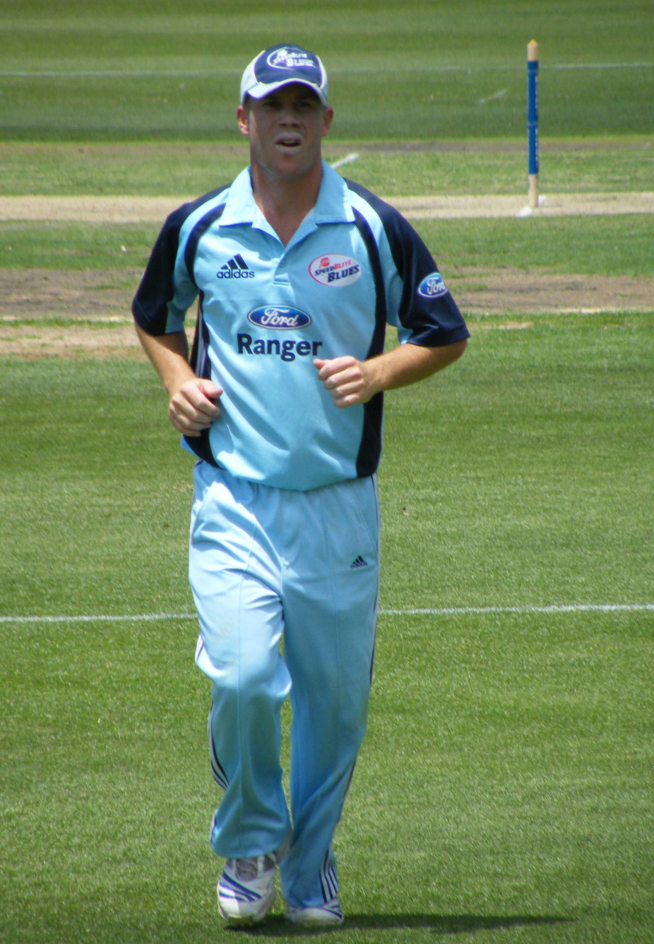 NSW Cricketer David Warner - NSW v Tasmania, Hurstville Oval. Saturday 29 November 2008.